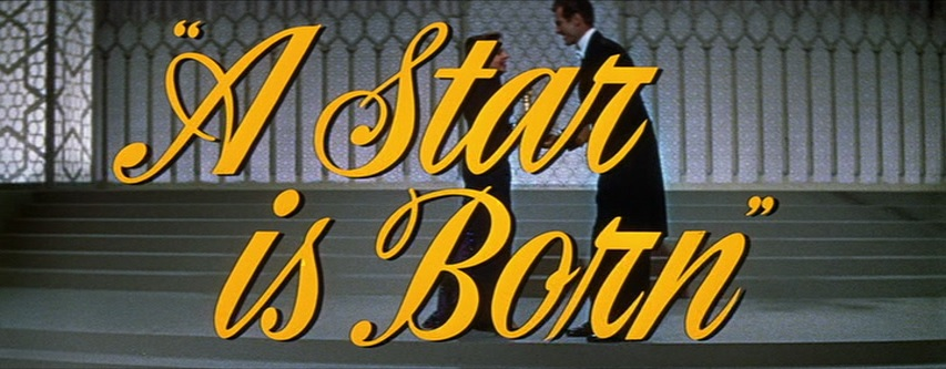 Cropped screenshot of the title from the trailer for the film A Star Is Born.